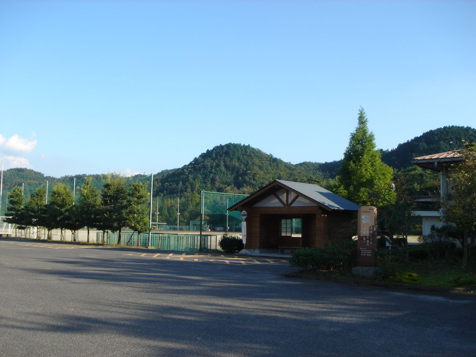 Gifu Prefectural Yaotsu High school（岐阜県立八百津高等学校）,Yaotsu,Gifu,Japan(岐阜県八百津町)で撮影。